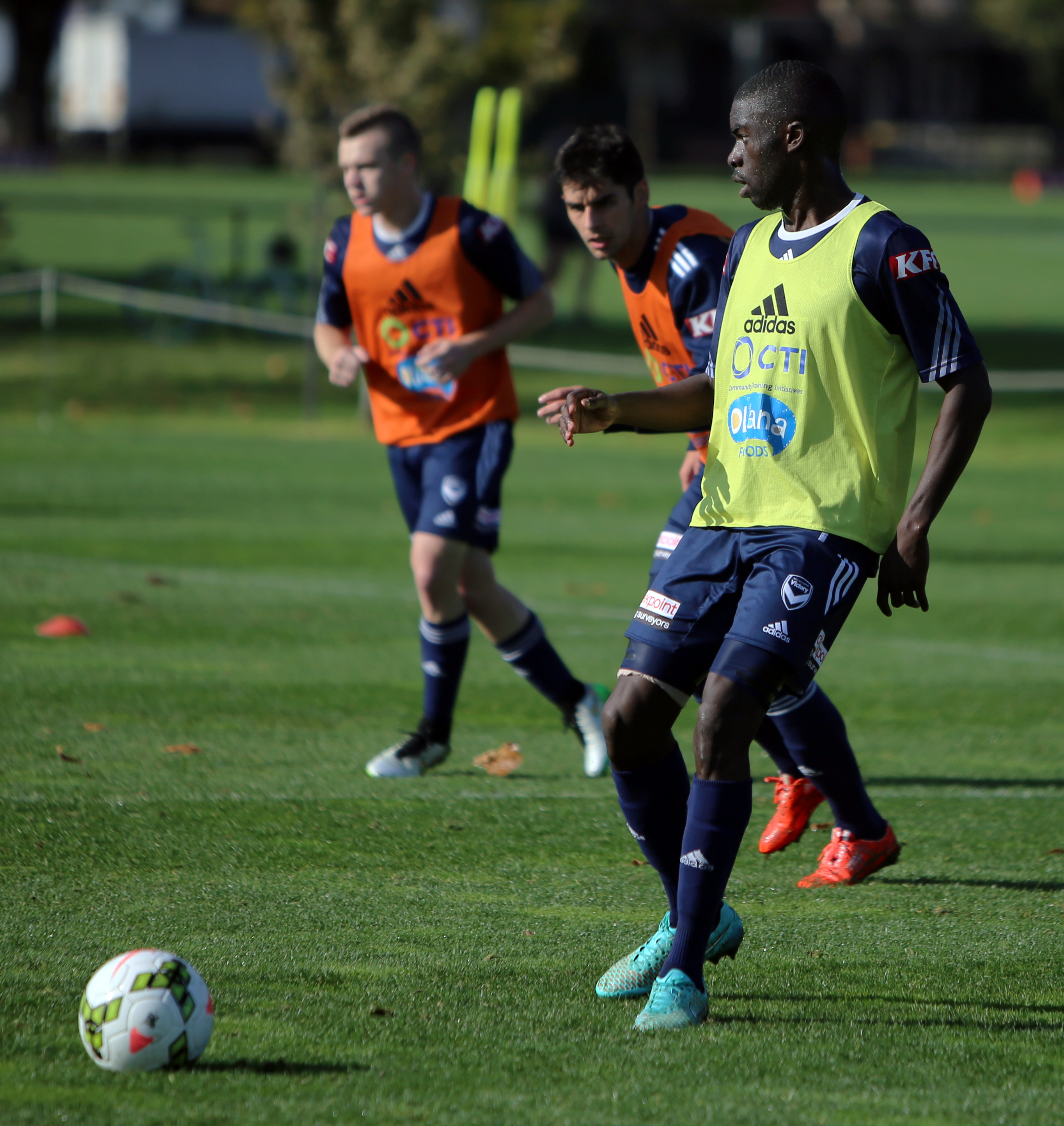 Jason Geria training for Melbourne Victory, May 2015